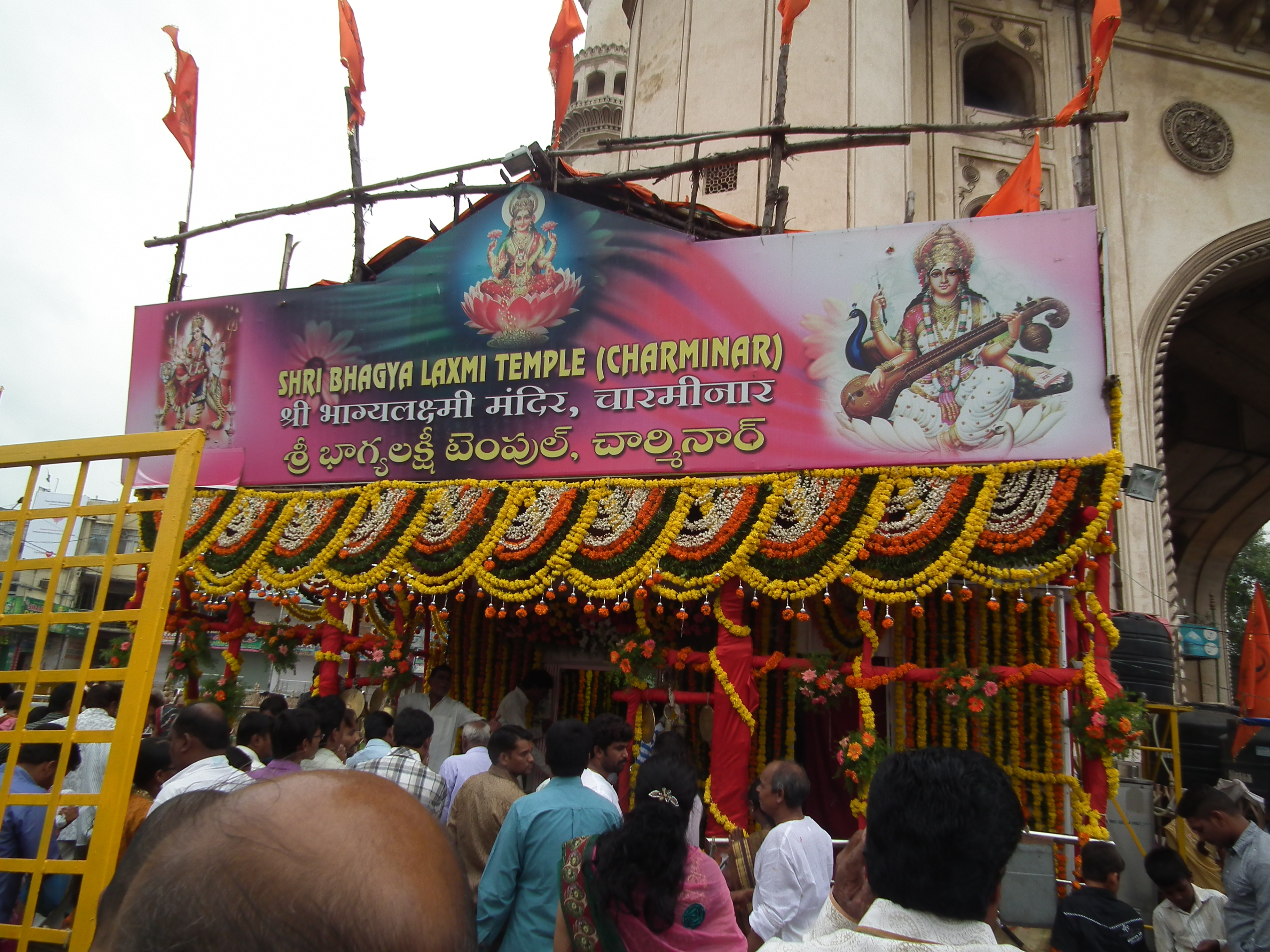 Snap from Charminar, Hyderabad, India